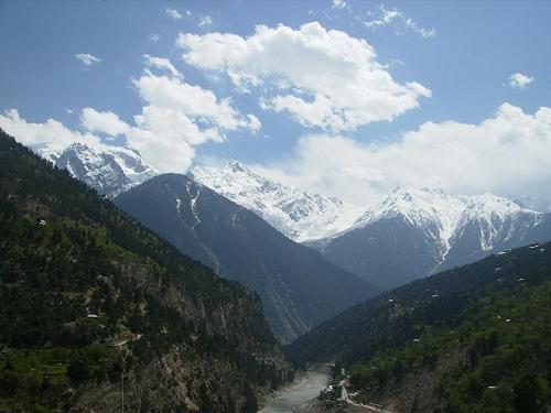 View on way to Reckong Peo, Near Karchham, NH-22, Kinnaur District, Himachal Pradesh, India